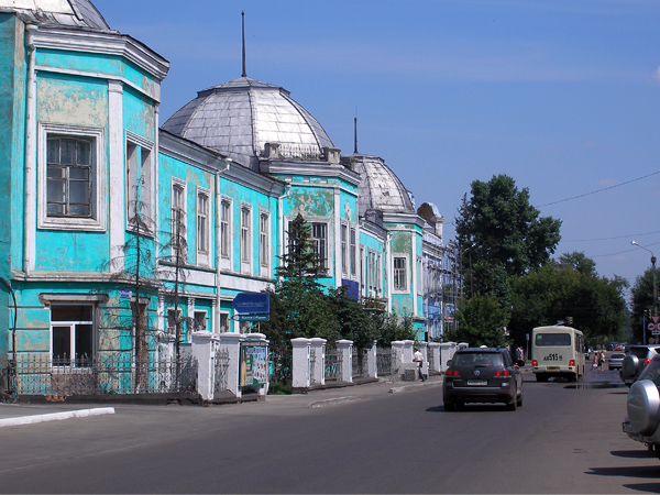 Polzunov street, Barnaul, Russia